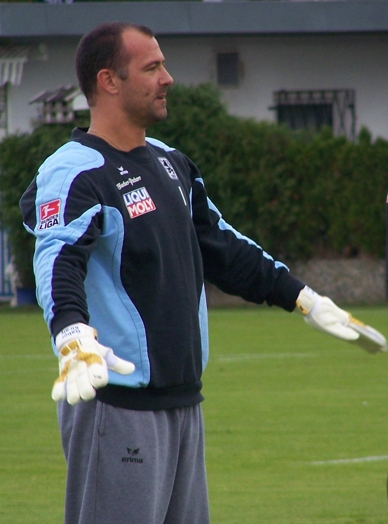 Gabor Kiraly, 1860 munich, training